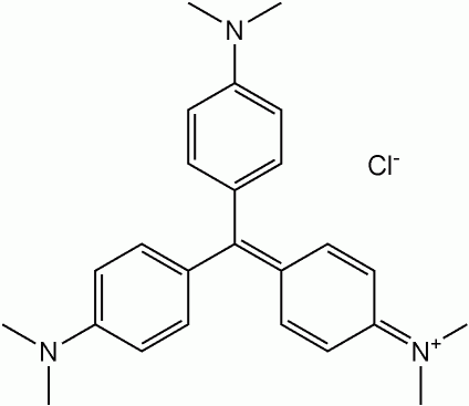 Description: Chemical structure of Methyl Violet 10B Author, date of creation: selfmade by Shaddack, 3 November 2005 Source: self-made Copyright: Public Domain (PD) Comments: b/w hires PNG; ChemDraw